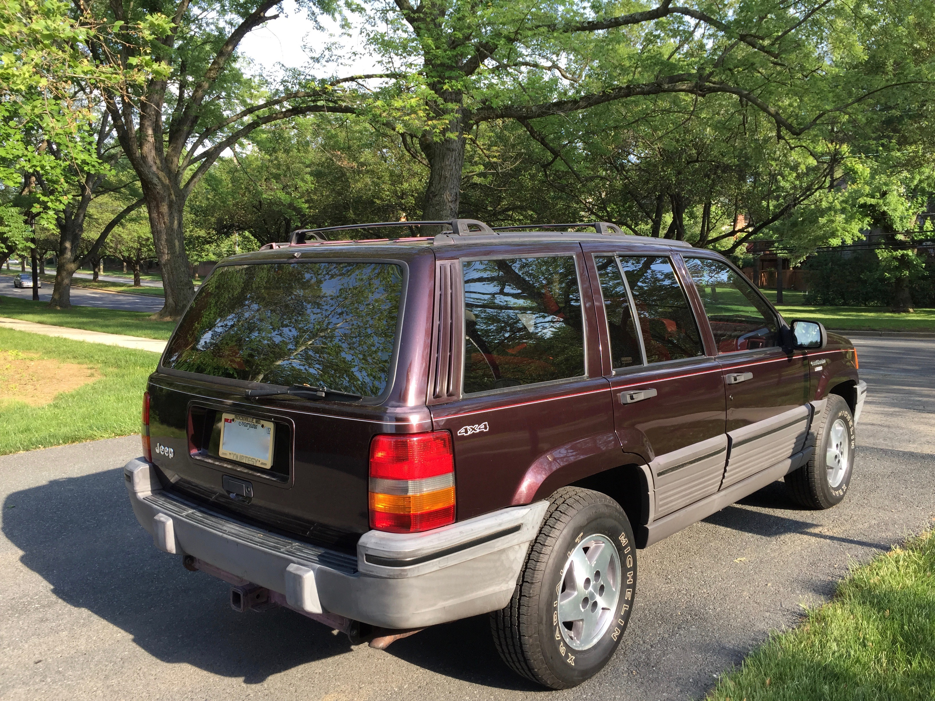 1993 Jeep Grand Cherokee, a luxurious sport utility (SUV) finished in Metallic Blackberry (paint code: PM9), a deep burgundy. Equipment includes the Laredo 26F package and the Quadra-Trac full-time all-wheel drive. This is an early production ZJ model that was built in April 1992. The interior is in matching Crimson with cloth upholstery, that was only available at the start of the ZJ's production. The Laredo 26F package included standard Goodyear Invicta GL radial street tires from the factory. They have been replaced with Michelin X radial LTs.